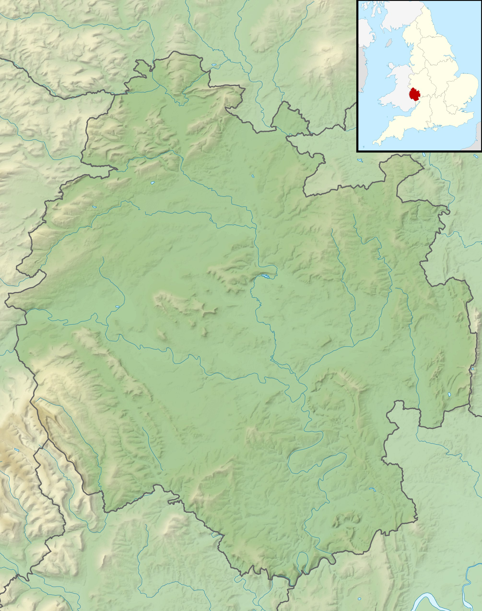 Relief map of Herefordshire, UK. Equirectangular map projection on WGS 84 datum, with N/S stretched 160% Geographic limits: West: 3.15W East: 2.33W North: 52.45N South: 51.80N